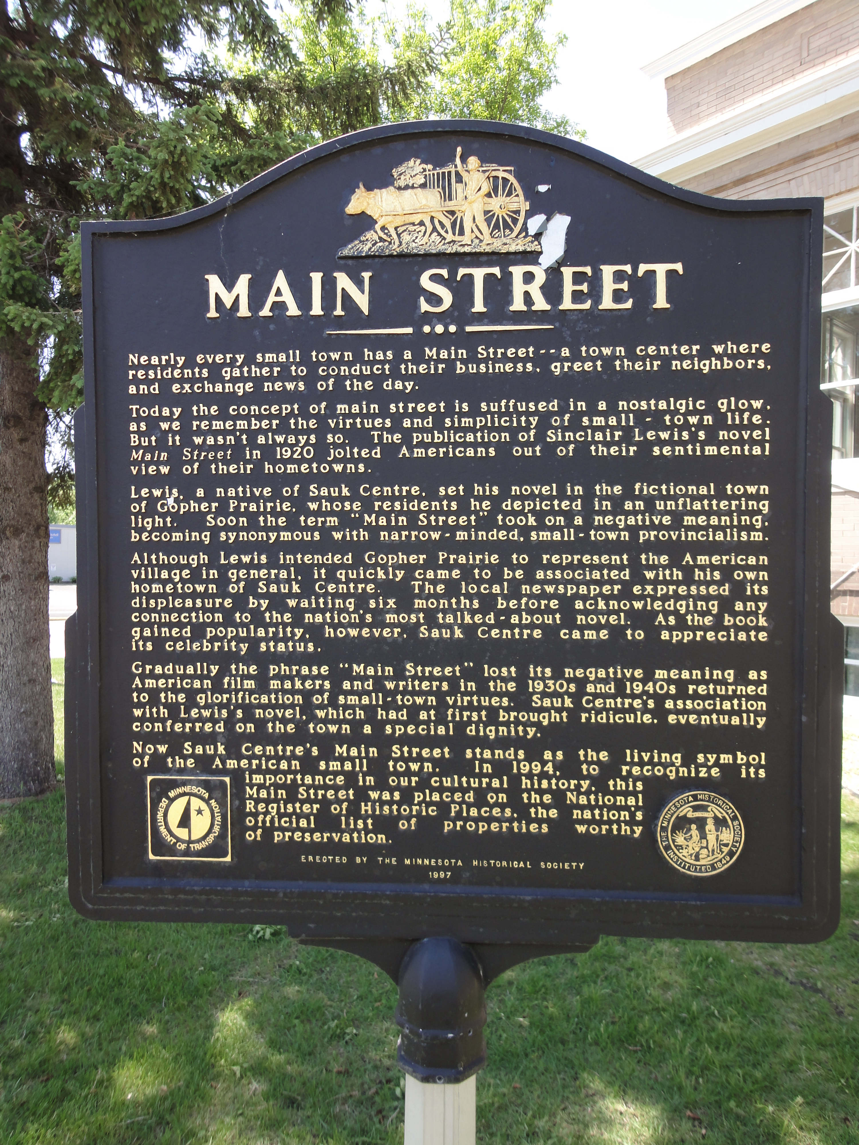 A sign describing the history of Main Street in Sauk Centre, MN.